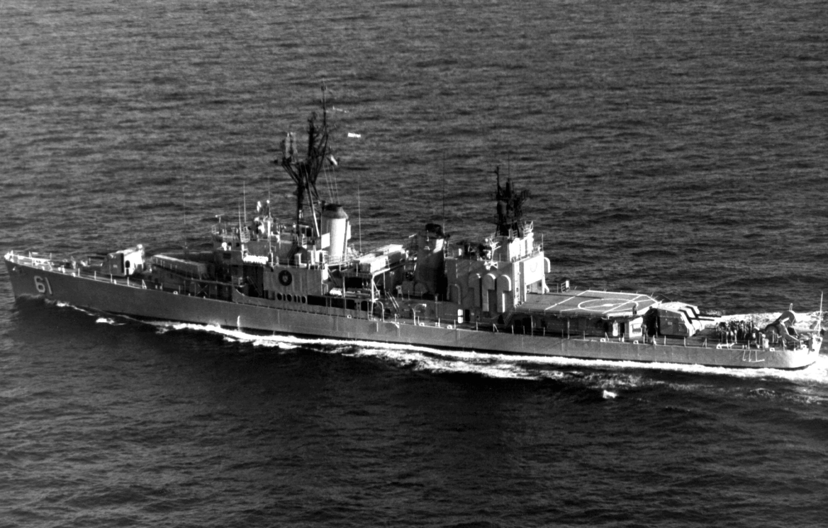 The Iranian destroyer Babr (D-61) underway on 1 November 1977. The ship was the former U.S. Navy Allen N. Sumner-class destroyer USS Zellars (DD-777) and was photographed from the aircraft carrier USS Midway (CV-41).